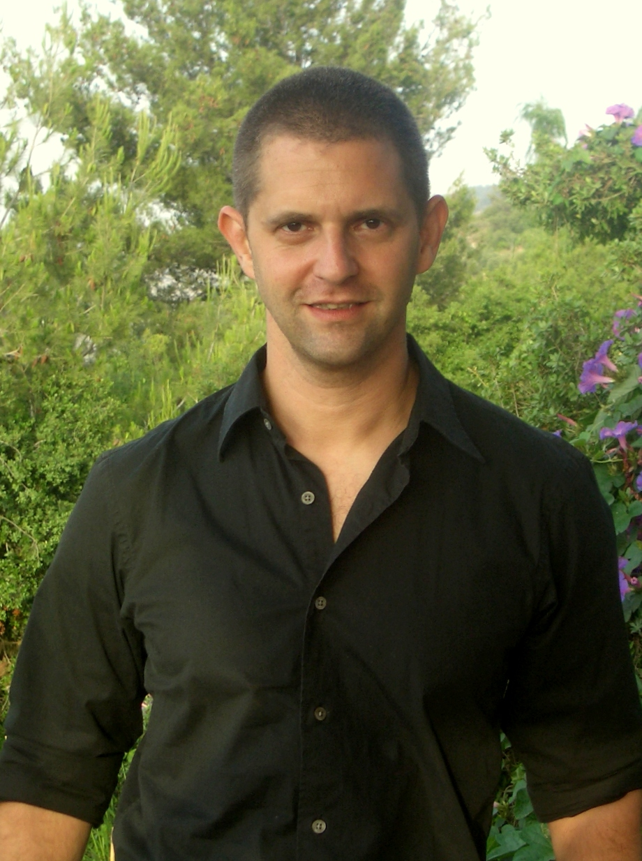 Dori Spivak (Hebrew: דורי ספיבק, born 19 December 1968) is the first openly-gay judge in Israel